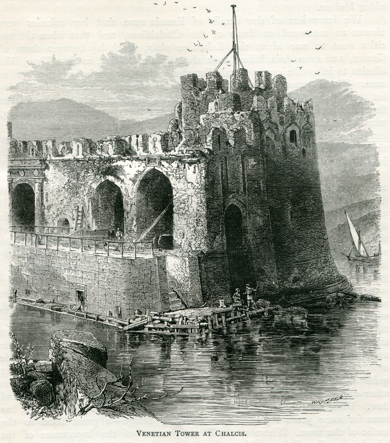 John Pentland Mahaffy. Greek Pictures, drawn by Pen and Pencil, by J. P. Mahaffy, London, The Religious Tract Society, 1890